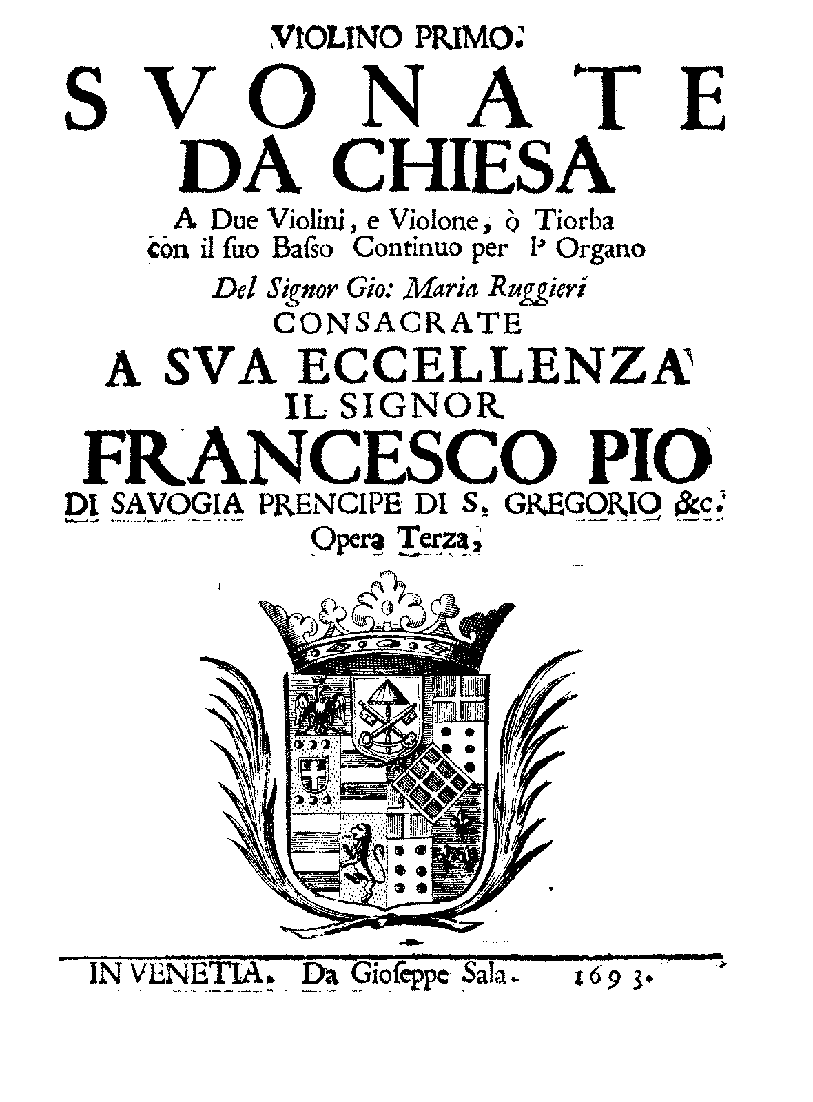 10 Suonate da Chiesa, Op.3 (Ruggieri, Giovanni Maria)